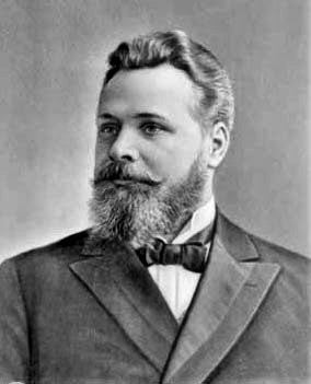 Portrait of Yefim Karskiy, supposedly of c.1890s-beg. 1900s.